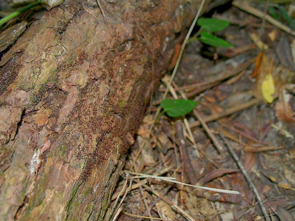 Cribraria cancellata (Cribrariaceae) Japanese name:Kumonosuhokori：クモノスホコリ Date;2009,08.22;Tanabe City, Wakayama prefecture, Japan Author;Keisotyo